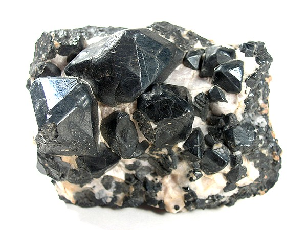 Franklinite Locality: Franklin Quarry (Moses Bigelow Quarry; Farber Quarry), Franklin, Franklin Mining District, Sussex County, New Jersey, USA (Locality at ) Size: small cabinet, 7.9 x 6.1 x 5.4 cm Franklinite A very rich and obviously very old specimen of Franklinite, from the turn of the 20th century in all likelihood. It was in the Carl Bosch collection which was donated to the Smithsonian, and after "leaking out" ended up in the Barlow Collection dispersed in 1998. It is a fine piece for the price, but the labels add considerable value , intellectually, in my opinion. 7.9 x 6.1 x 5.4 cm